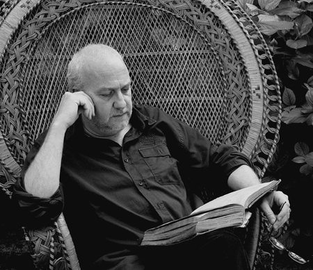 Raul Lovisoni - italian rock-musician [1]